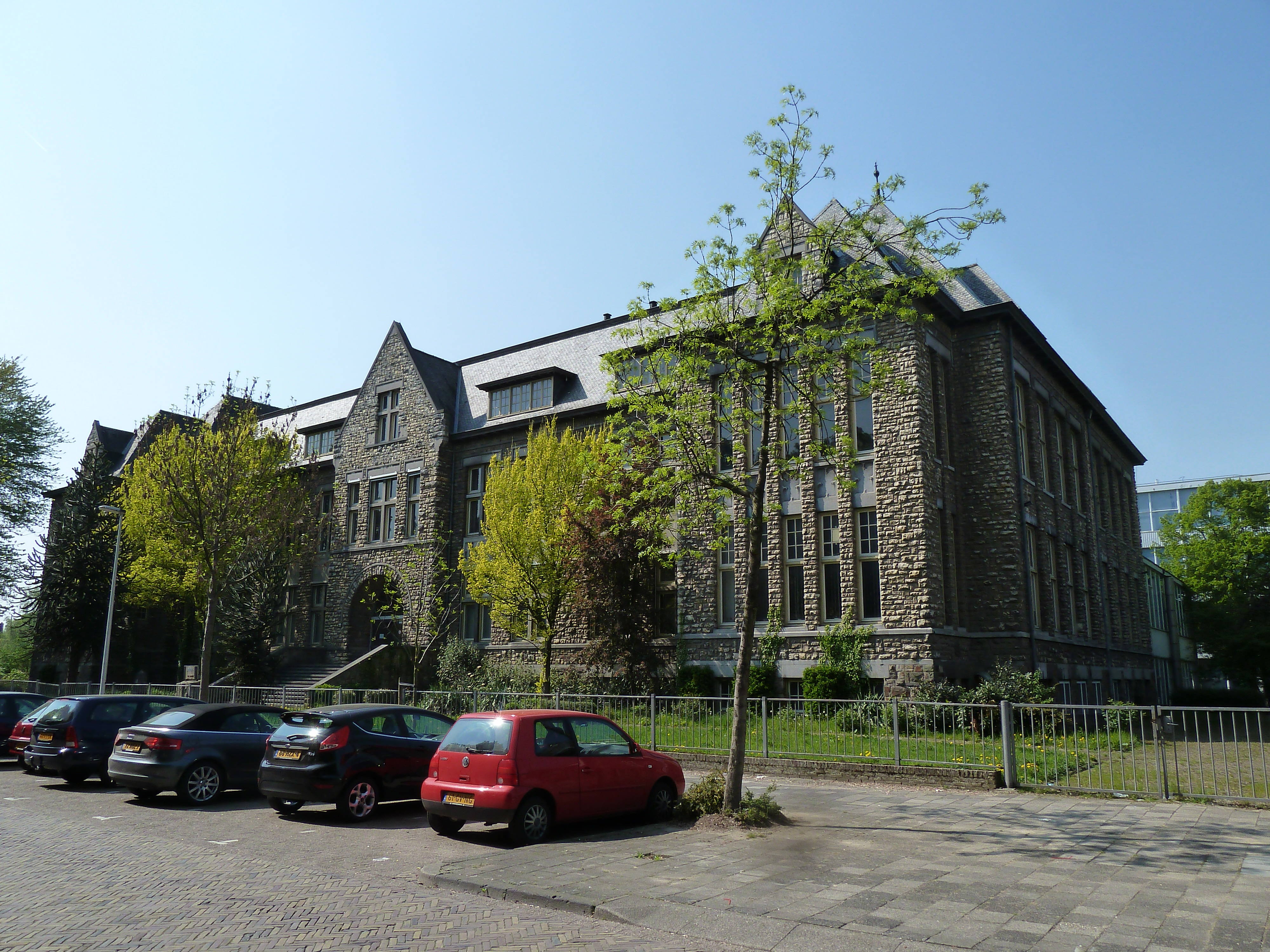 HTS at Bekkerveld, Heerlen, Limburg, the Netherlands